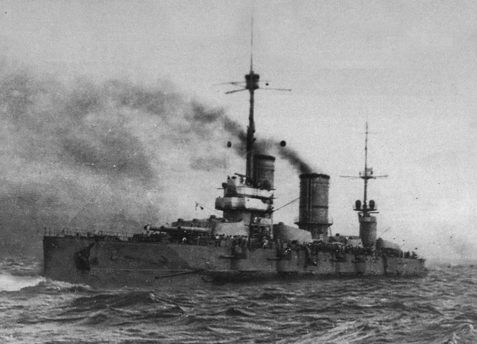 Battleship Poltava.